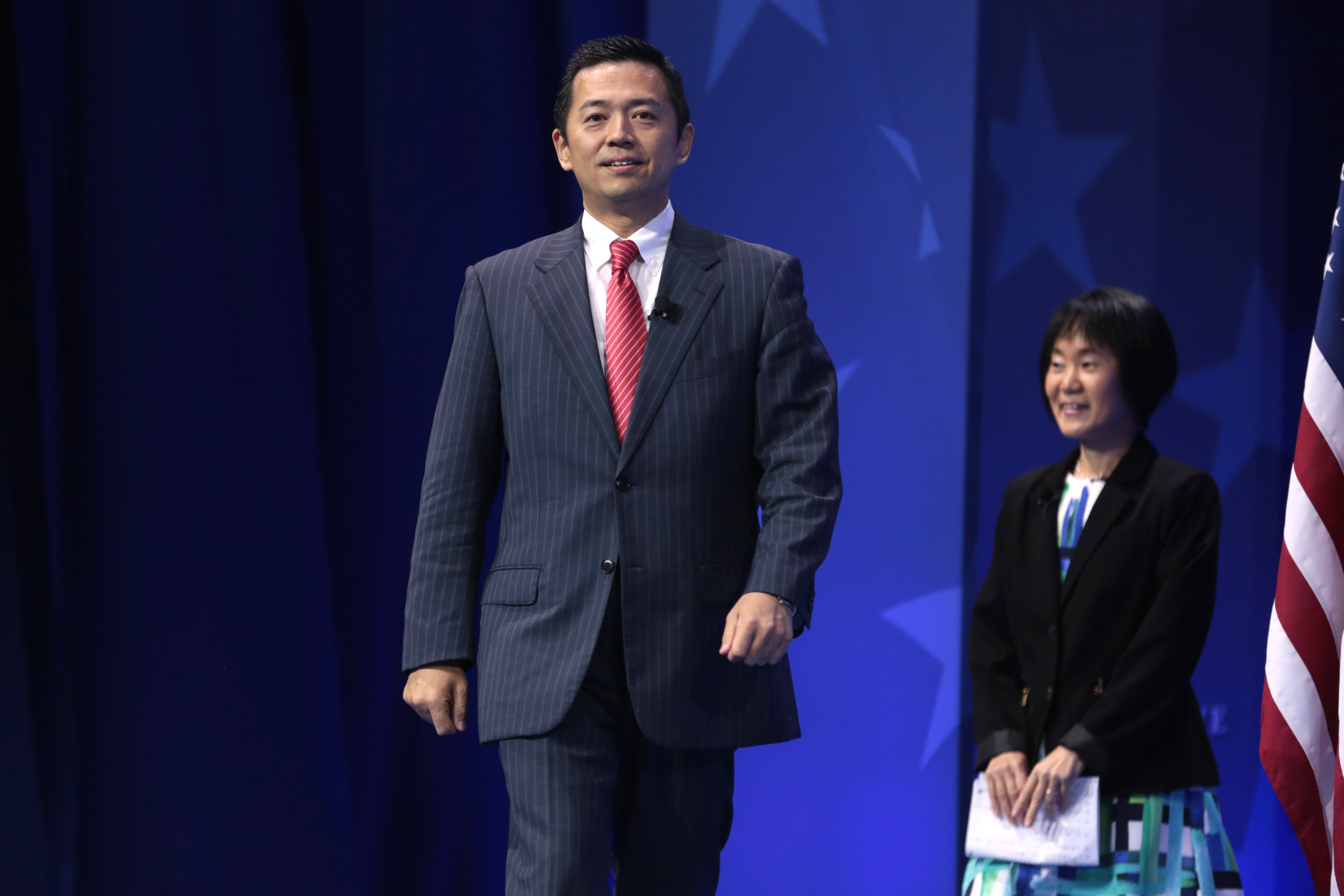 Jikido "Jay" Aeba speaking at the 2017 Conservative Political Action Conference (CPAC) in National Harbor, Maryland.